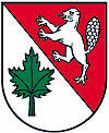 Coat of arms of the former municipality of Ahorn, Upper Austria